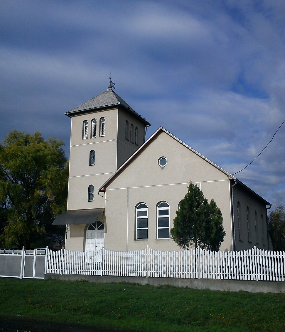 Reformat church in Bilki